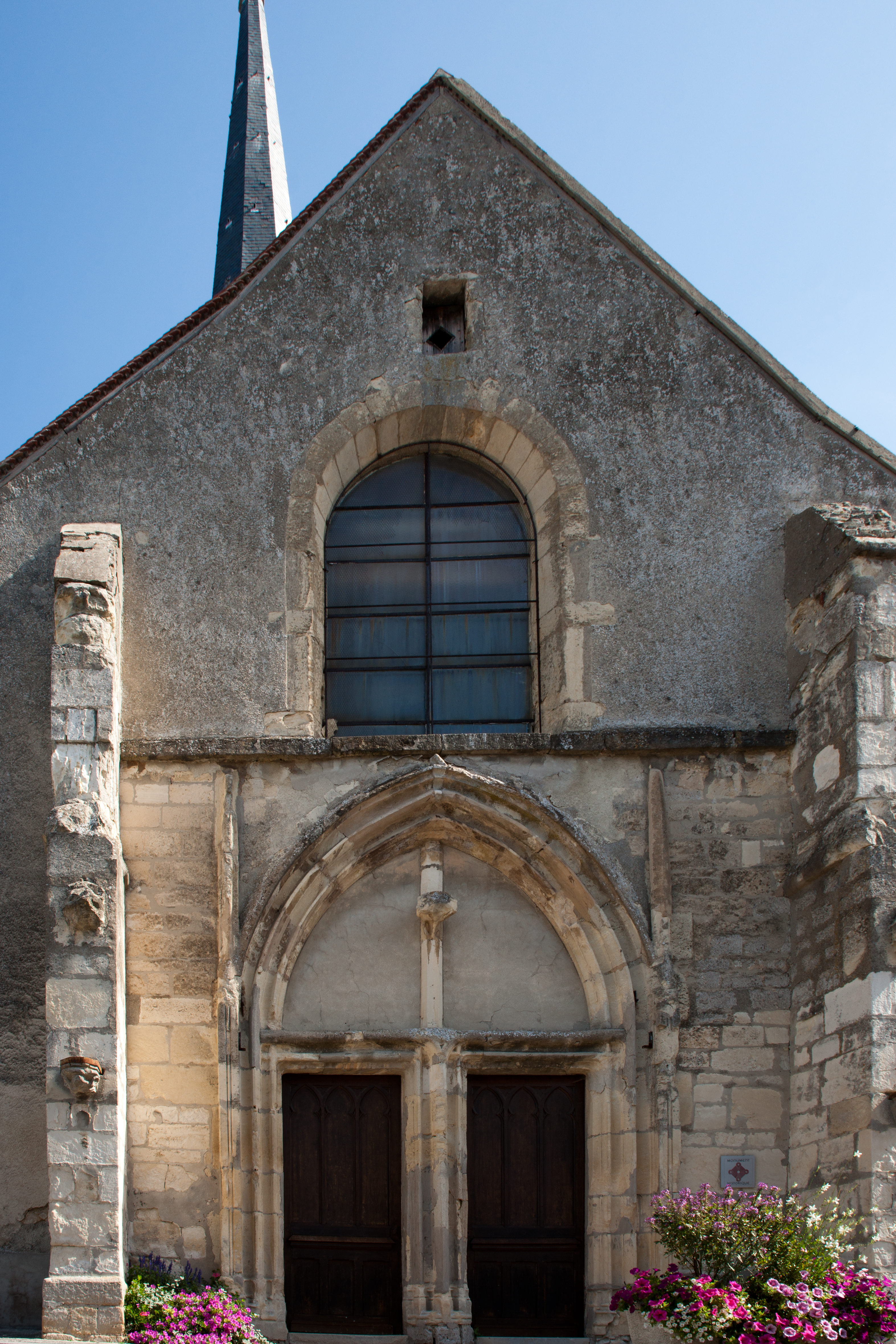 Saint-Pierre-Saint-Paul Church, Chamery, France.